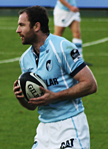 Irish rugby union player Geordan Murphy playing at full back for Leicester Tigers away to Bath in the 2009 Guinness Premiership.